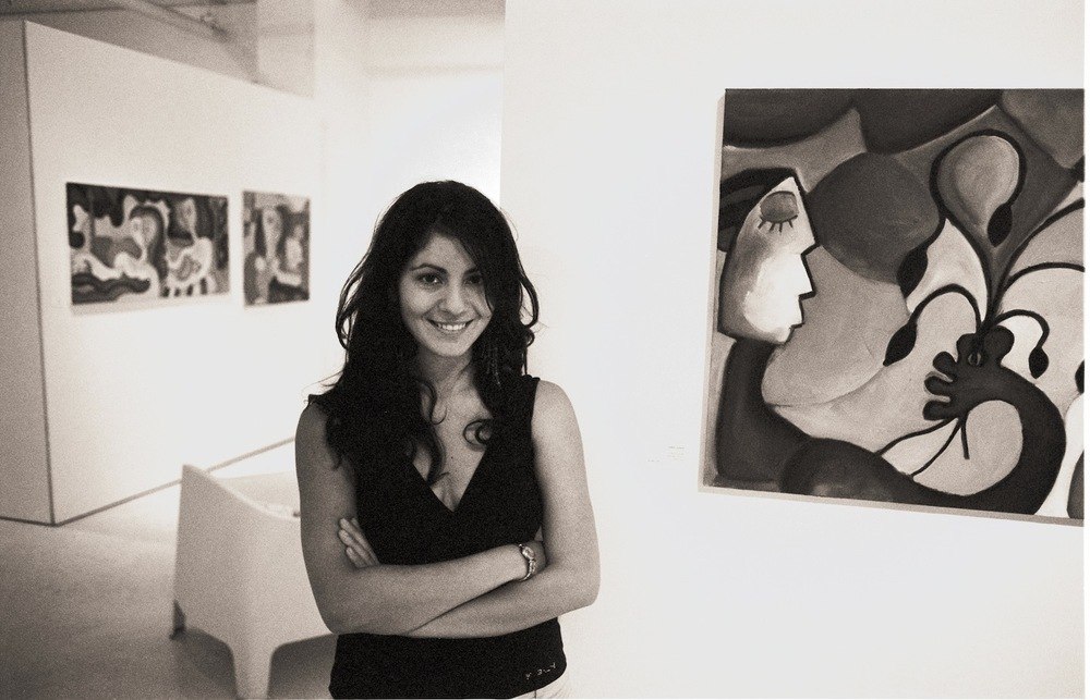 A picture of Gizem Saka from her exhibition in Montreal in 2005